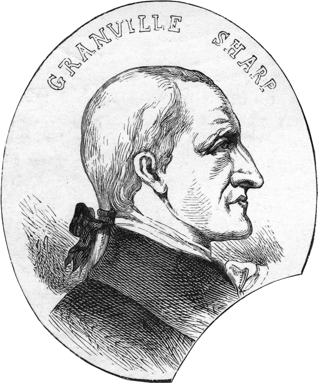 Portrait of Granville Sharp. From Heroes of the Slave Trade Abolition, by unknown artist, given to the National Portrait Gallery, London in 1936. All images in this batch are listed as "unknown author" by the NPG, who is diligent in researching authors, and was donated to the NPG before 1939 according to their website.